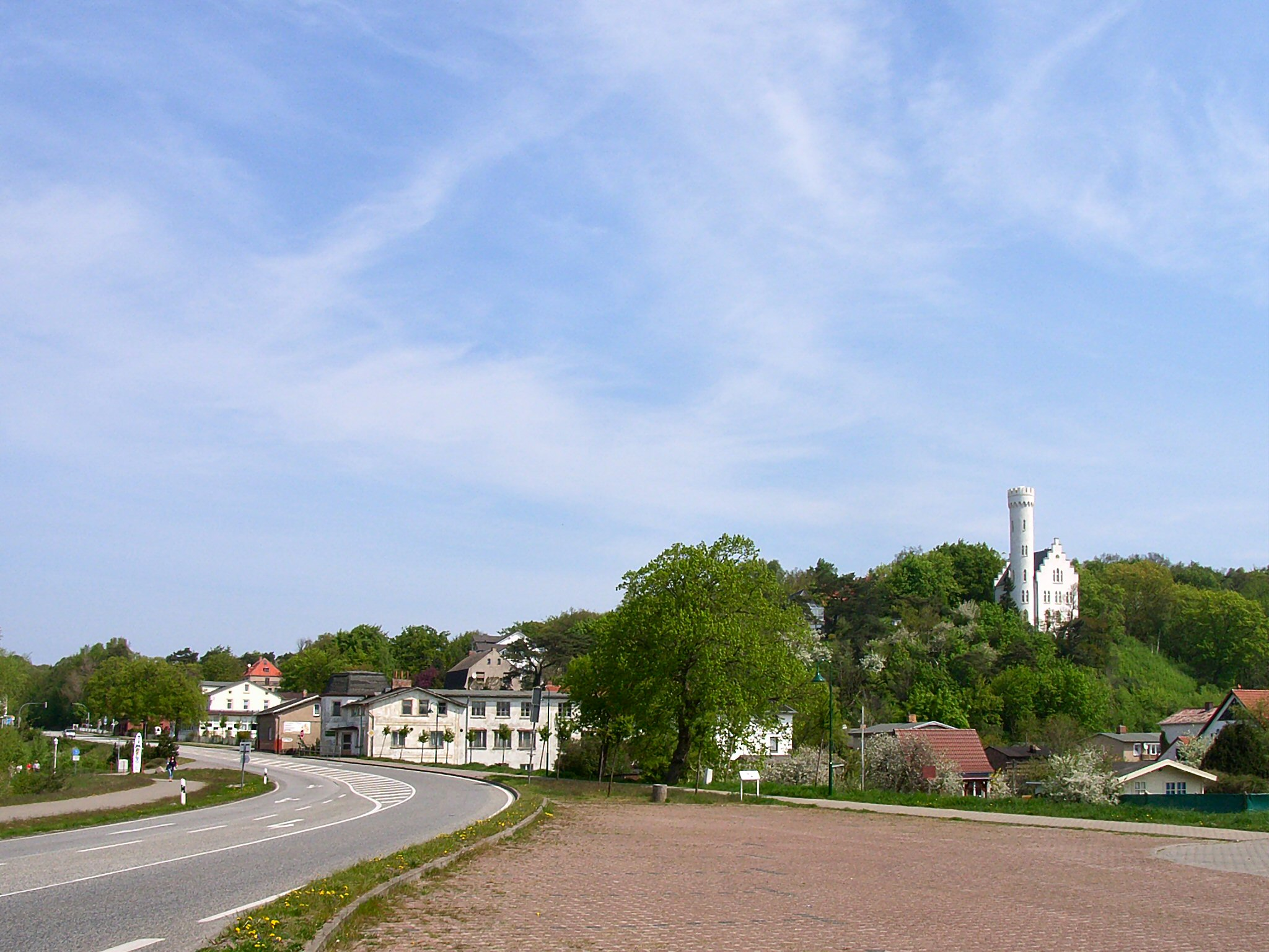 Lietzow on island Rügen